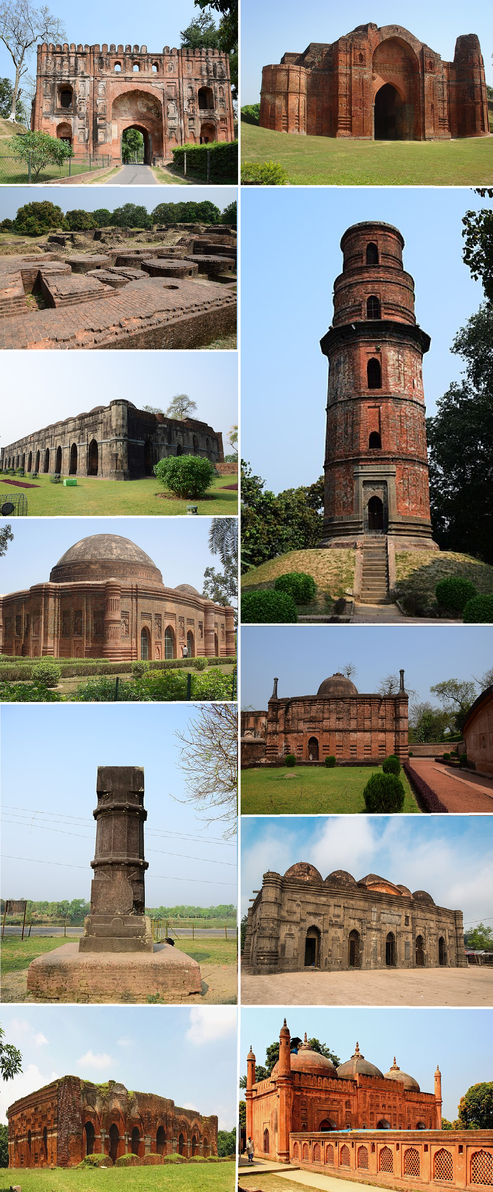 Montage of archaeological sites in Gauda, India